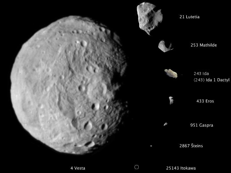 This composite image shows the comparative sizes of eight asteroids.